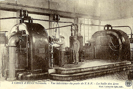 Early Poulsen arc radio transmitter at a US Navy station at Croix d'Hins, Bordeaux, France. The two 1 megawatt transmitters shown here, built by the Federal Telegraph Co. in 1919, which could broadcast continuously at a power of 500 kW and for a short time at a power of 1 MW, were one of the largest arc transmitters ever built. The Poulsen arc converter, invented in 1903 by Valdemar Poulsen was one of the earliest continuous wave radio transmitters and one of the first that could transmit AM (voice). It was a short-lived technology which was used from 1903 until the mid-1920s when it was replaced by much cheaper and less bulky vacuum tube transmitters. The device consisted of two horizontal arc electrodes, a water-cooled copper anode and a carbon cathode in a chamber of hydrogen gas between the poles of a powerful electromagnet. A tuned circuit consisting of a coil and capacitor was connected to the electrodes. When a DC voltage was applied to create an arc, radio frequency oscillations were generated, which were applied to the antenna. The transmitter operated in the very low frequency (VLF) range and had a range of thousands of miles. It was around 46% efficient and could supply an antenna current of 750 A.